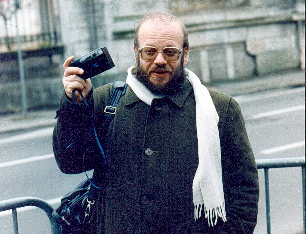 Franco Fossati in Angoulême, France, in 1995